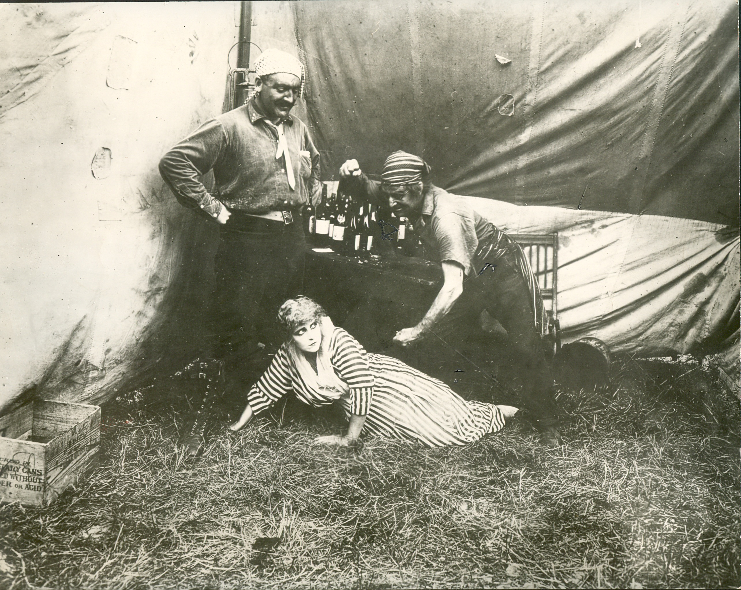 Film still from the 1914 serial The Perils of Pauline.